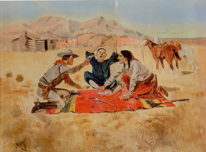 "Not a Chinaman's Chance," oil on panel, by the American artist Charles Marion Russell. 18 in. x 24 in. Yale University Art Gallery, gift of Virginia Shafroth in memory of her husband, James Quigg Newton, B.A. 1933, LL.B. 1936, member of the Yale Corporation 1951-55. Courtesy of Yale University, New Haven, Conn.